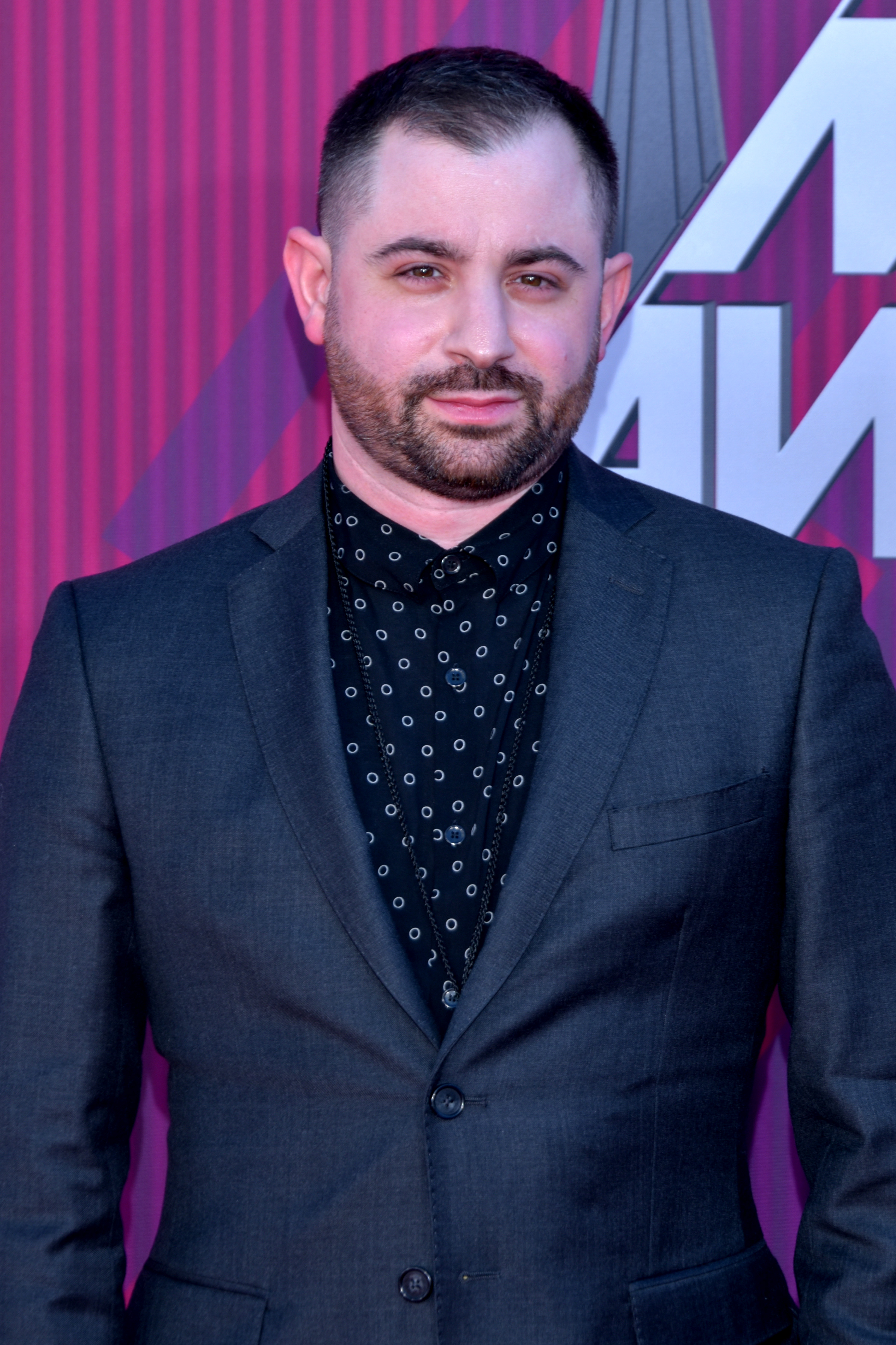 Louis Bell at the 2019 iHeartRadio Music Awards in Los Angeles California on March 14, 2019 - Photo by Glenn Francis of